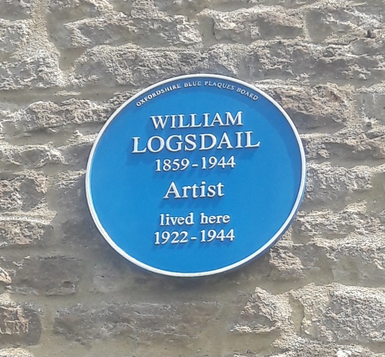 Oxfordshire Blue Plaque for British artist William Logsdail at his former home at the Manor House, Noke, Oxfordshire, England. Plaque reads: Oxfordshire Blue Plaques Board William Logsdail 1859 - 1944 Artist lived here 1922-1944